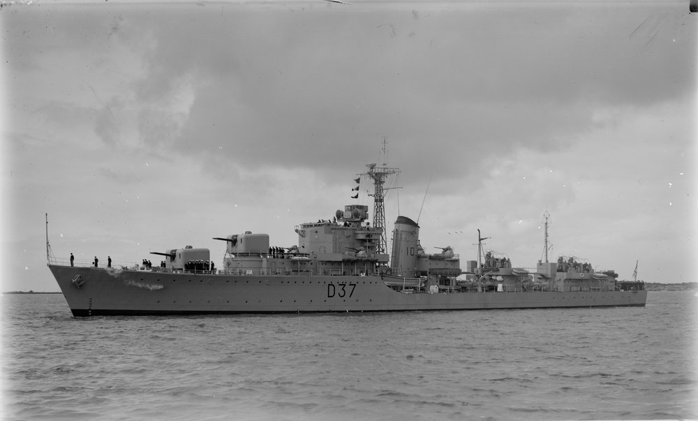 HMAS Tobruk.